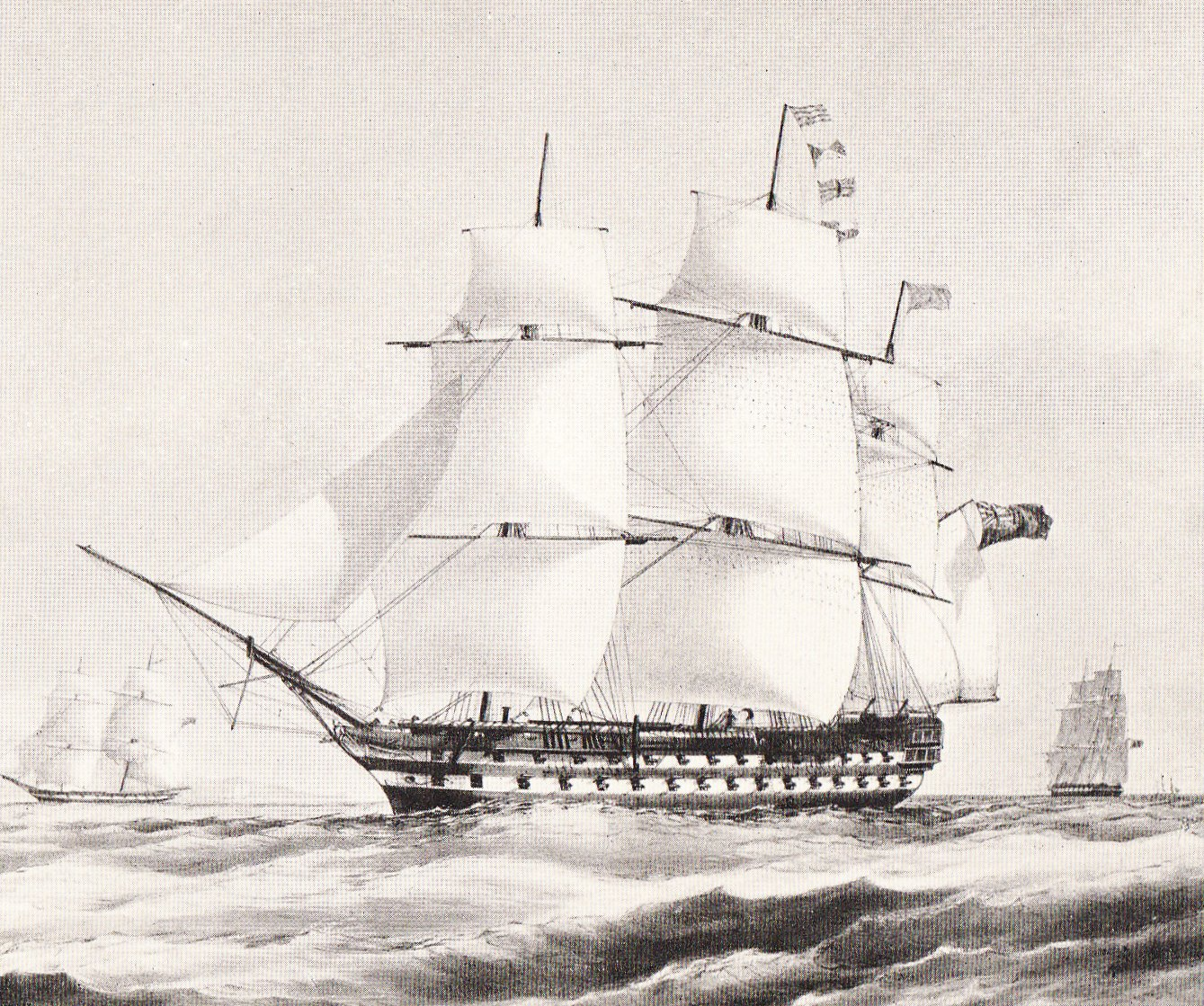 Royal Navy battleship HMS Collingwood (1841)